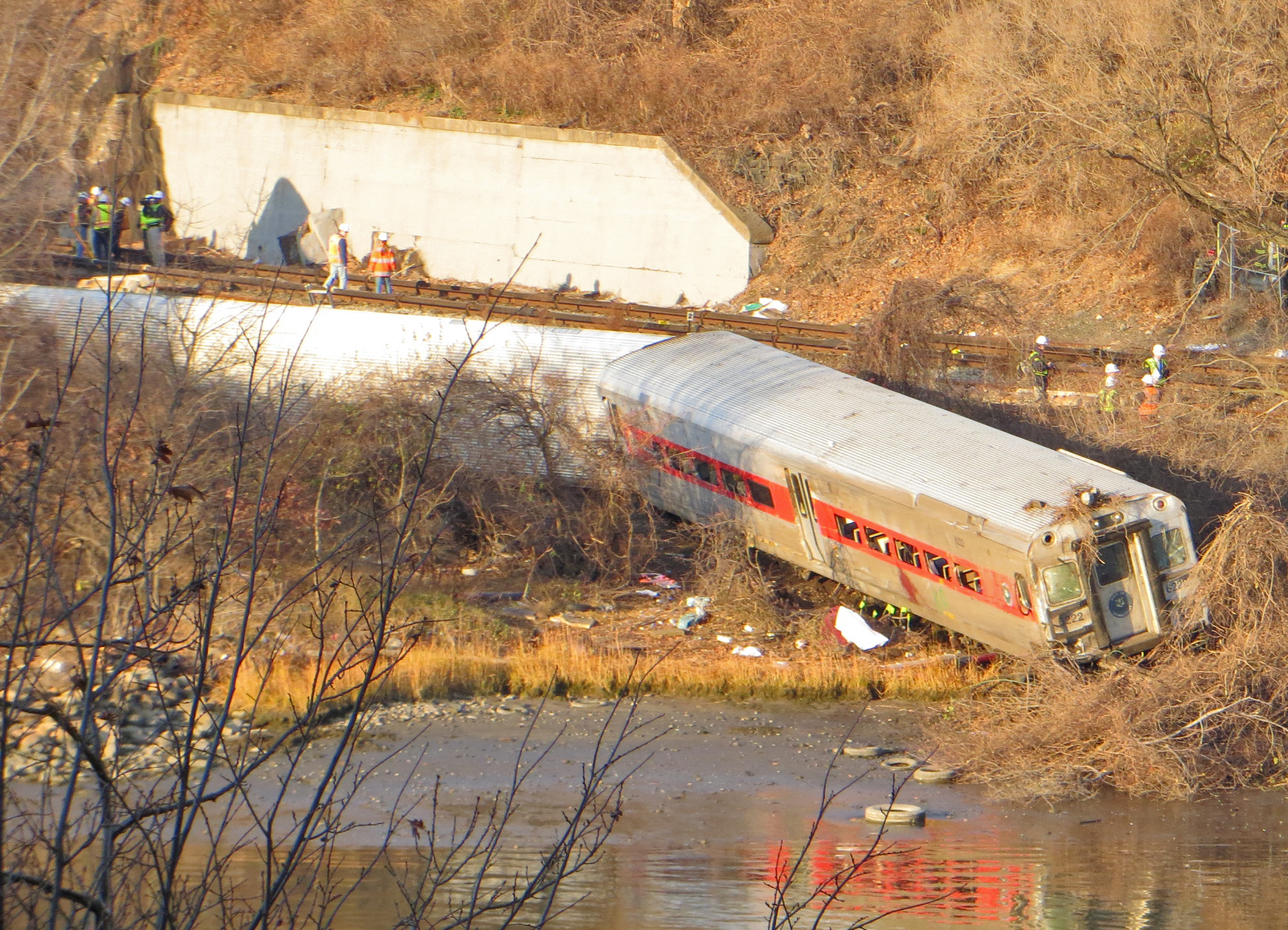 Spuyten Duyvil Train Derailment - Dec 01, 2013, seen from hill near Henry Hudson Bridge across the Harlem River Ship Canal